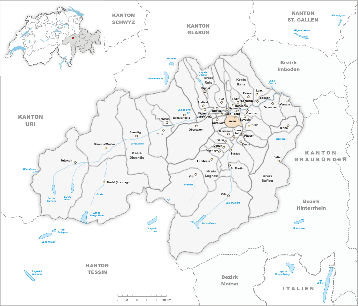 Municipality Luven